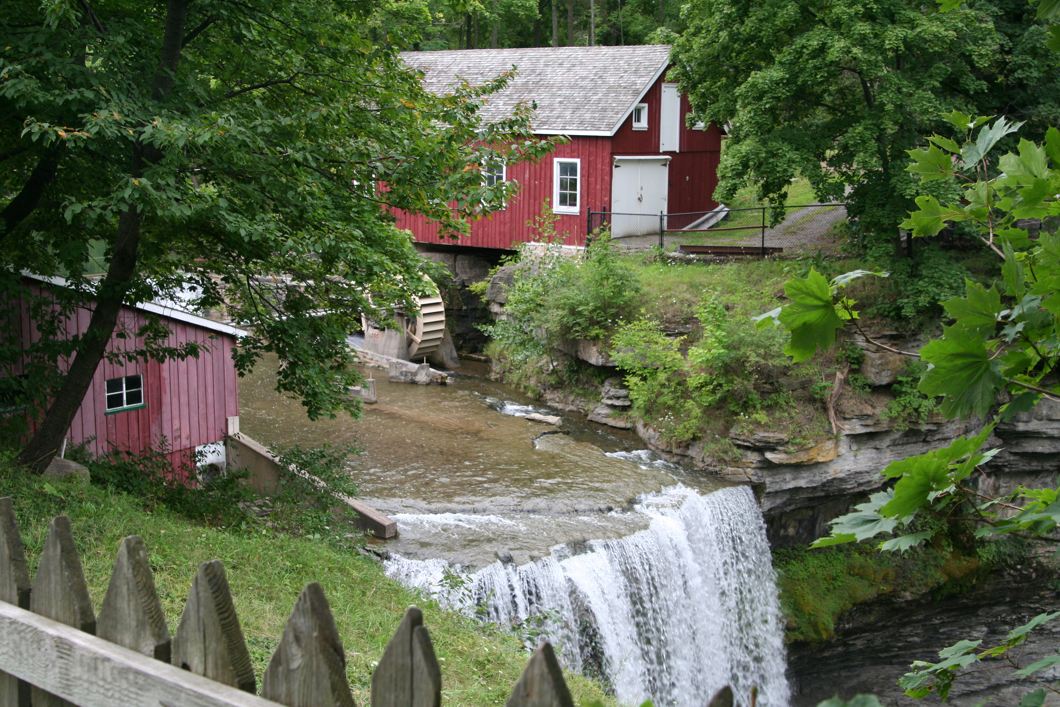 Decew Falls at the start of Bruce Trail.